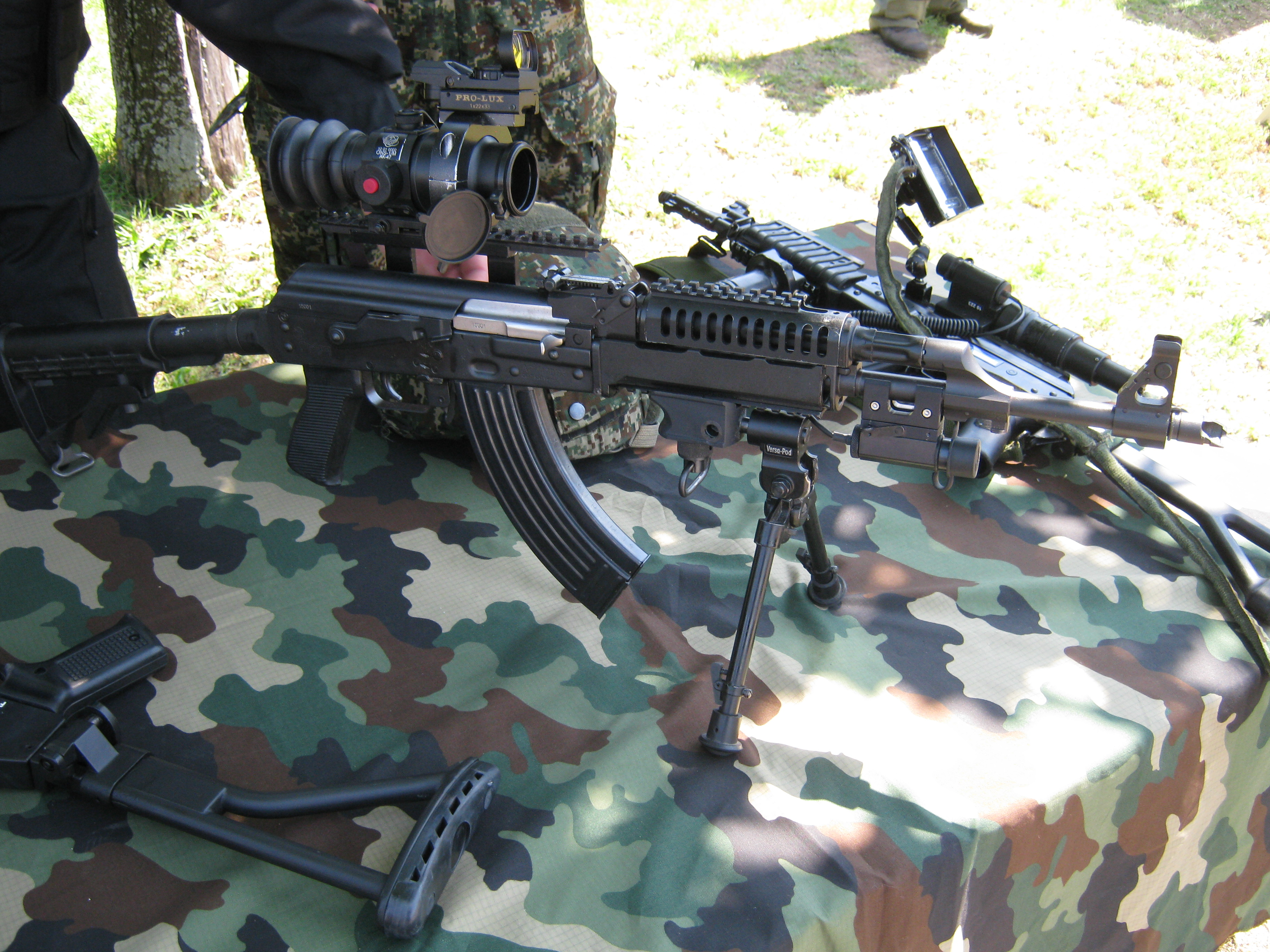 Zastava M70 AB2 modification by Yugoimport.